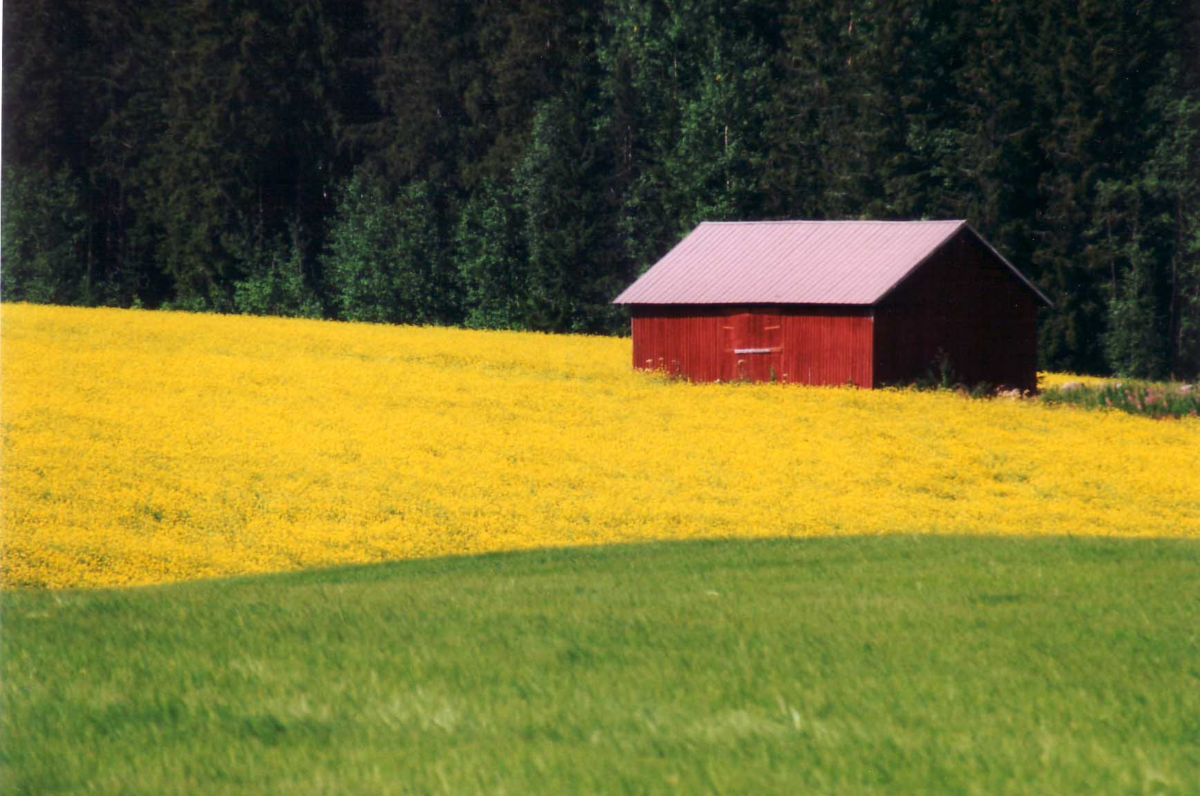 Fields and barn in rural Lappeenranta, Finland